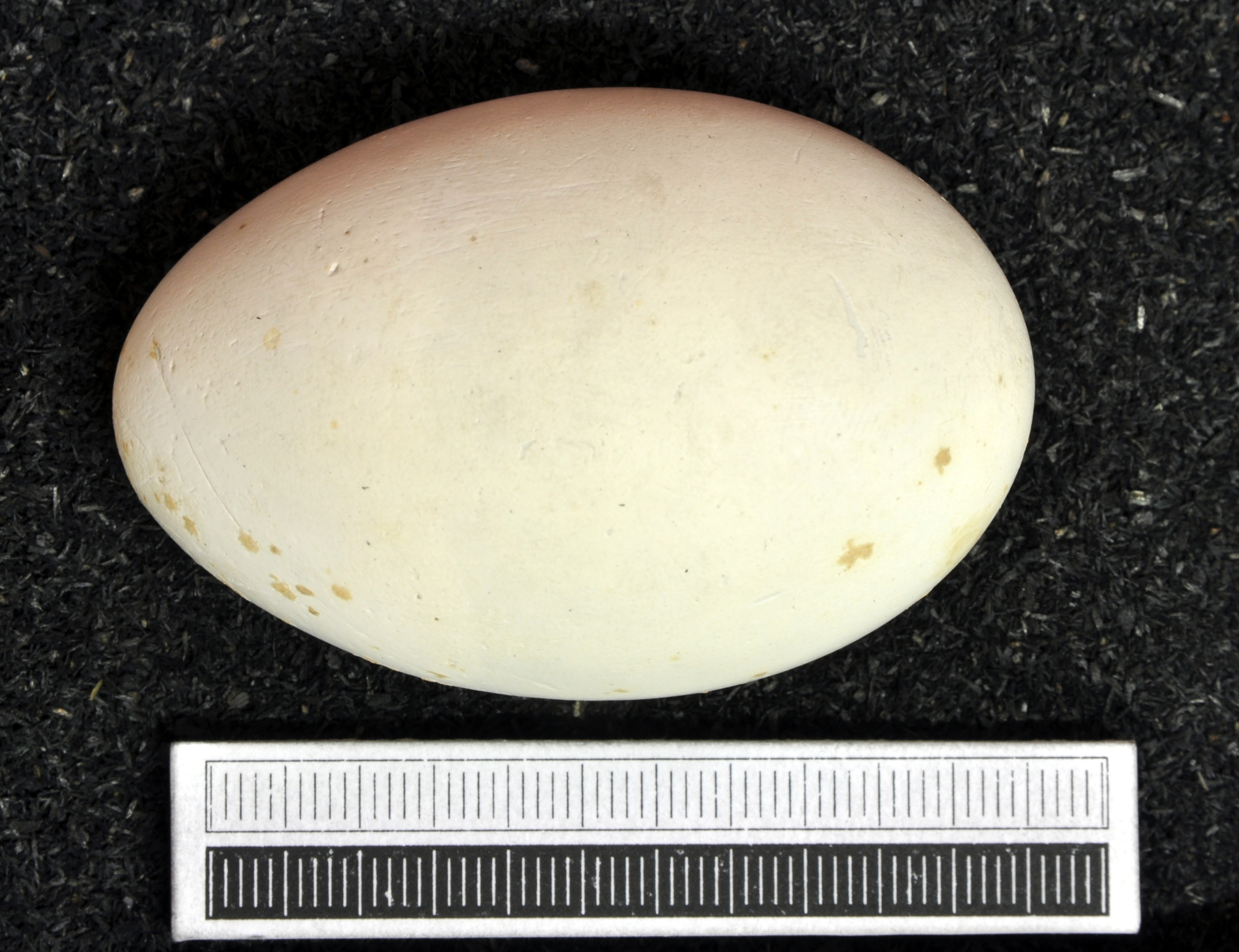 Red-footed booby Sula sula , egg, Coll. Museum Wiesbaden